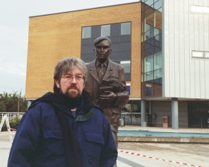 Robby Garner, American scientist